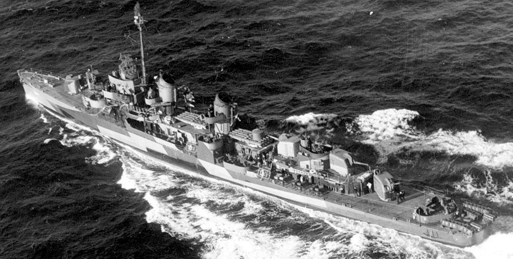 The U.S. Navy destroyer USS Rowe (DD-564) underway in March 1944.